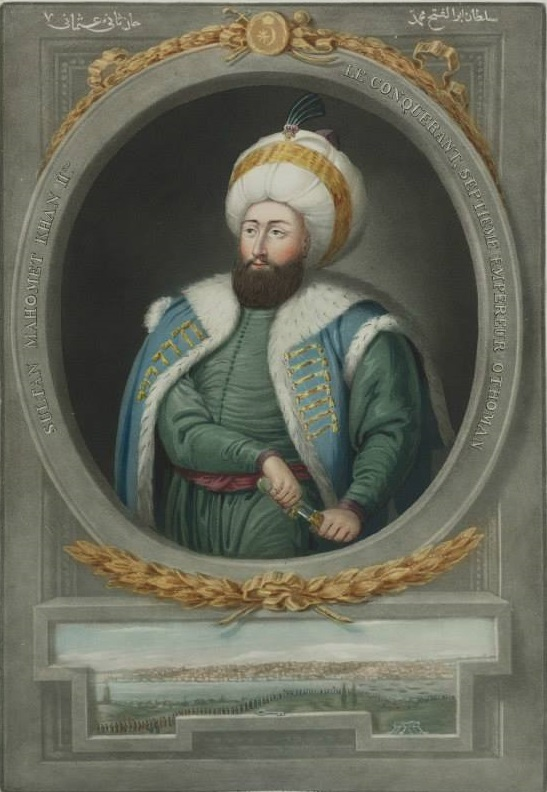 A portrait of Ottoman sultan Mehmed II